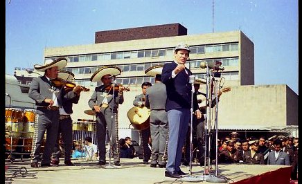 Rubén Zepeda Novelo